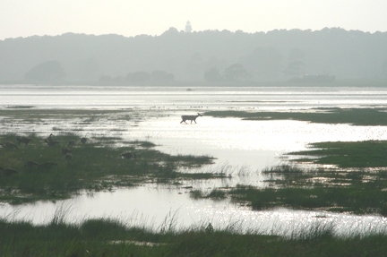 A white-tailed deer in Chincoteague, Virginia, the Assateague Island National Seashore, from the trail between the Snow Goose Pool and Shoveler Pool, facing west.